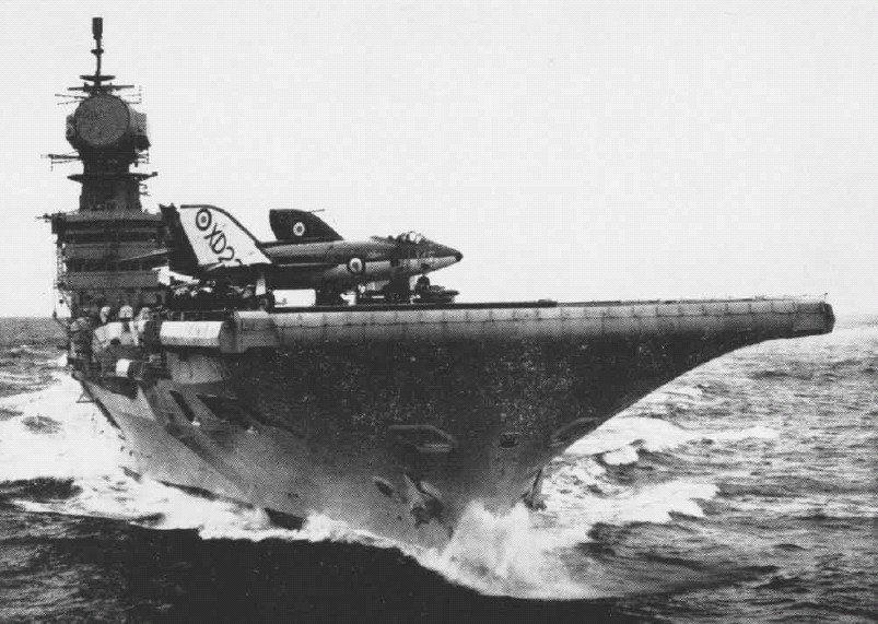 Bow shot of the British Royal Navy aircraft carrier HMS Victorious (R38) in 1960. A Supermarine Scimitar fighter is parked on the flight deck.